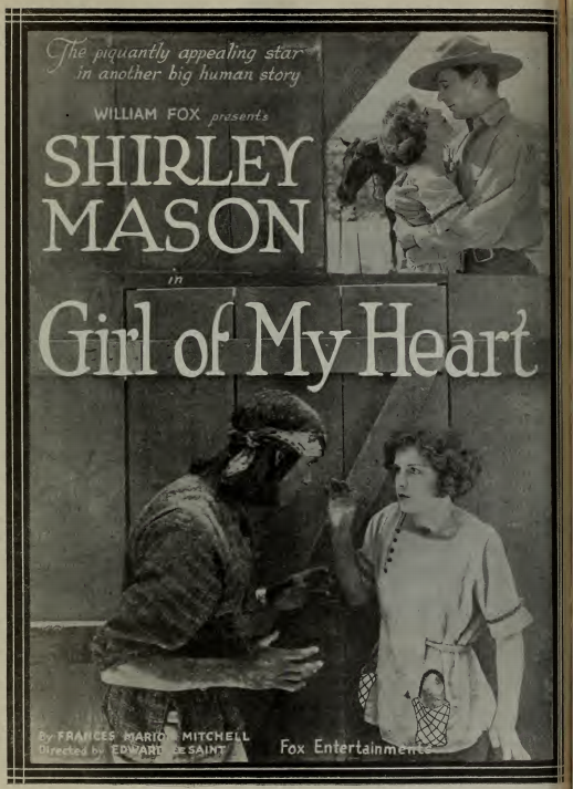 Shirley Mason in the American film The Girl of My Heart (1920), directed by Edward Le Saint (1920).